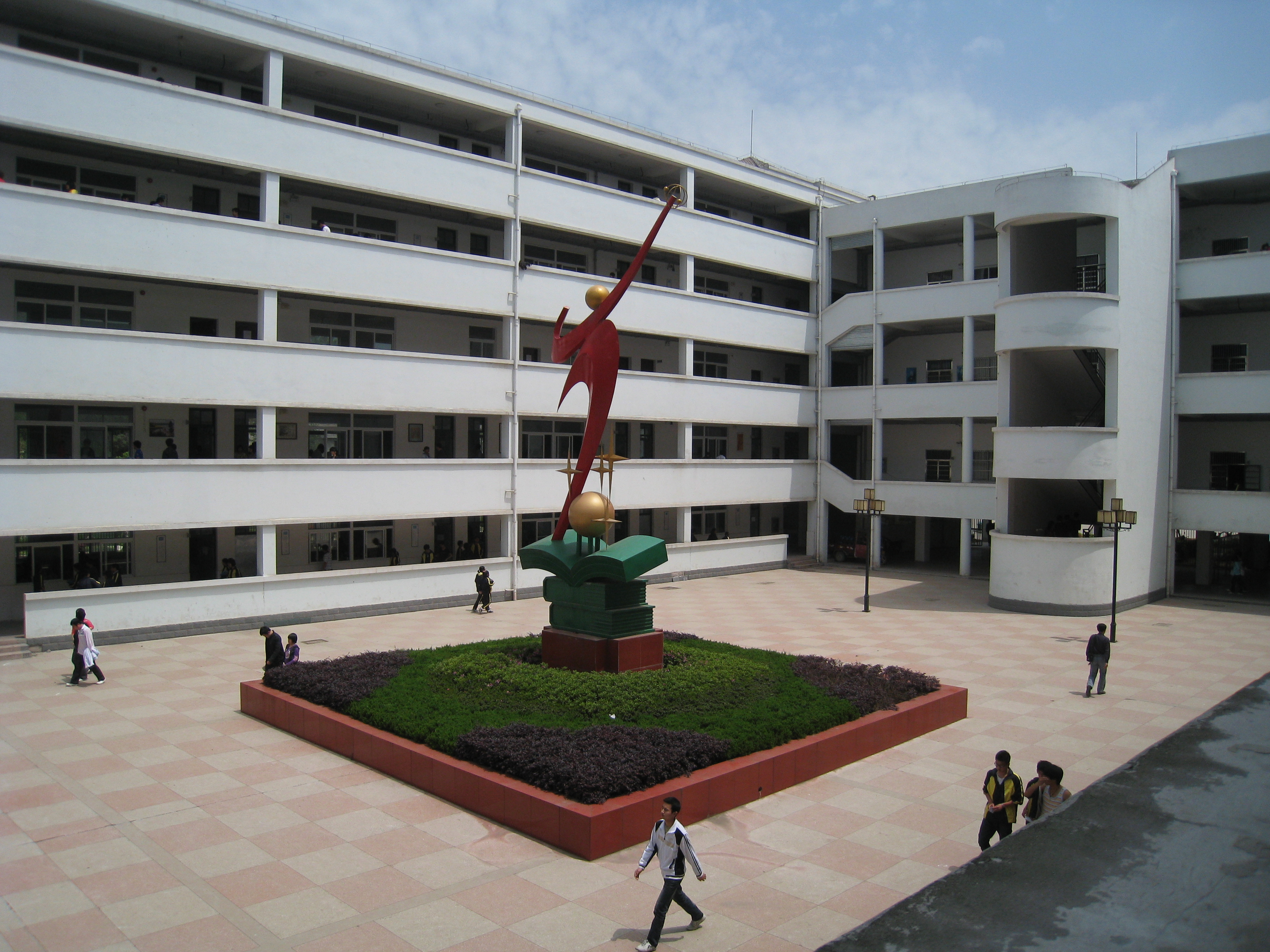 The inside scene of Dongzhi No.2 Middle School.